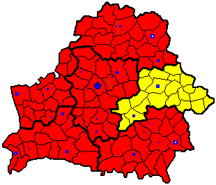 Map of Oblast Mogilev in Belarus with district-level subdivisions